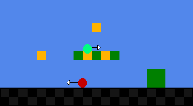 A schematic of the first obstacle a player will come across when playing the 1985 Nintendo platform game Super Mario Bros. In the side-scrolling game, Mario has to run and jump from left to right to get past various obstacles. Each square represents a square sprite; each fits perfectly on a grid. Legend: Green blocks, black tiled underground: solid object that cannot be destroyed at the start of the game. Golden blocks: Hitting these from below gives the player one coin. Collecting coins allows the player to obtain additional lives. Red circle: an enemy "Goomba" that slowly walks to the left. If it hits Mario from the side, Mario loses a life, though if Mario jumps on top of it, the enemy disappears. Green circle: A power-up that appears once Mario hits the golden block from below. This power-up then moves to the right and drops off the platform. The power-up turns around when it hits the green obstacle to the right and subsequently starts moving left. This makes it difficult to dodge once it starts moving.